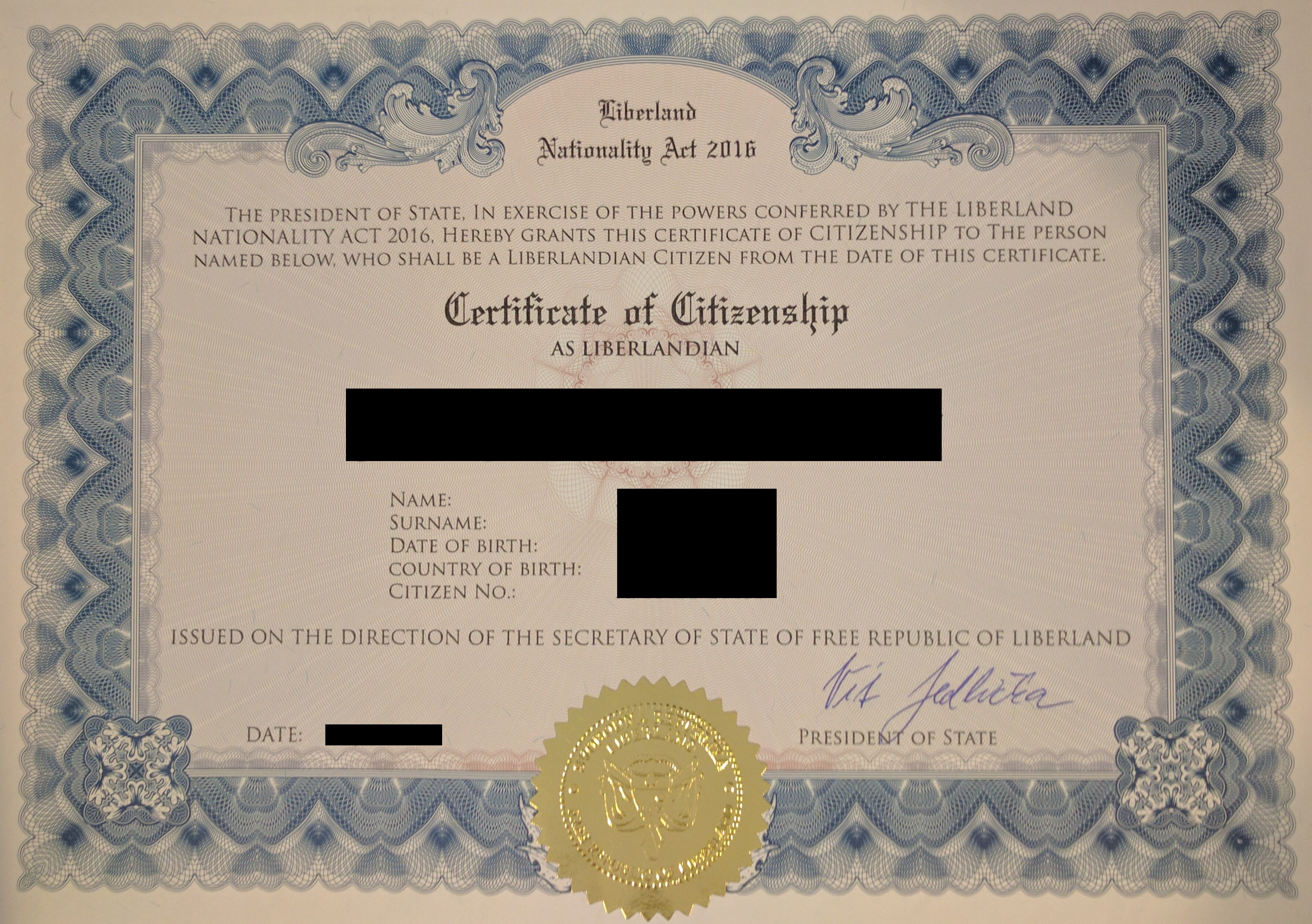 Liberland Citizenship Certificate